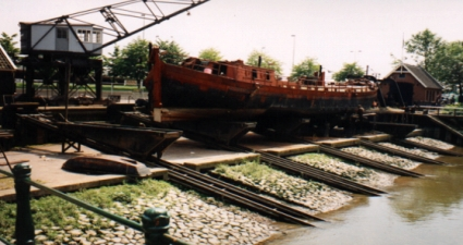 Picture made at Museum shipyard in Rotterdam somewhere in 1990.